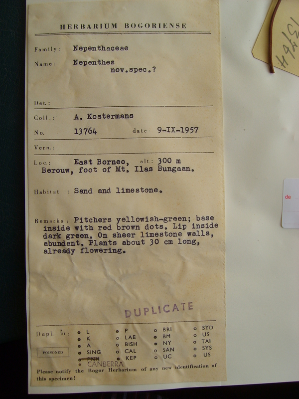 Label of the isotype of Nepenthes campanulata (Kostermans 13764) deposited at the Museum National d'Histoire Naturelle in Paris, France.